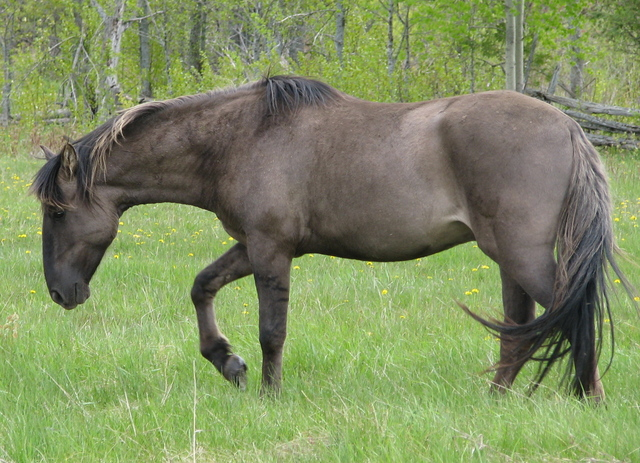 Altamiro (Ultrajado x Pompeia) is a purebred Sorraia stallion. His sire (bred by José Luis Vasconcellos e Sousa d'Andrade) and dam (bred by Maria Emilia d'Andrade Oliveira e Sousa) were exported from Portugal to Germany. Altamiro was born in 2005 at the Wisentgehege zoological park in Springe (Hanover), and was imported to Canada in 2006 to become part of a transcontinental conservation effort to save this endangered wild-type of primitive horse. At the Ravenseyrie Sorraia Mustang Preserve on Manitoulin Island (Ontario), Altamiro lives a virtually autonomous life with his harem of specially selected mustang mares of Sorraia type, successfully creating offspring that provide an essential genetic outcross-vigor to the highly inbred European Sorraia population (of which less than 200 specimens remain). This photo taken in May of 2008 shortly after his third birthday.